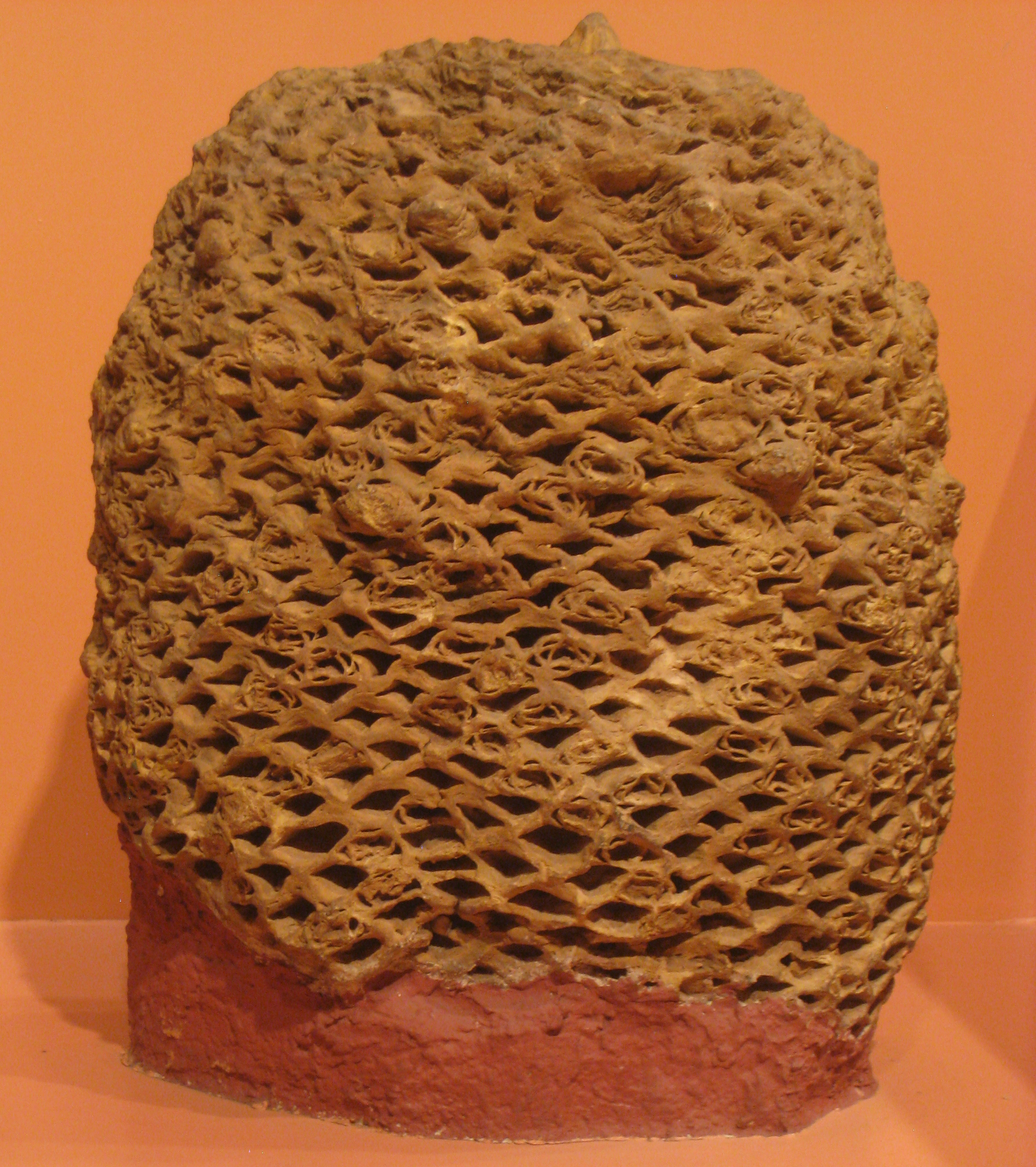 Cropped image of taxon in file name